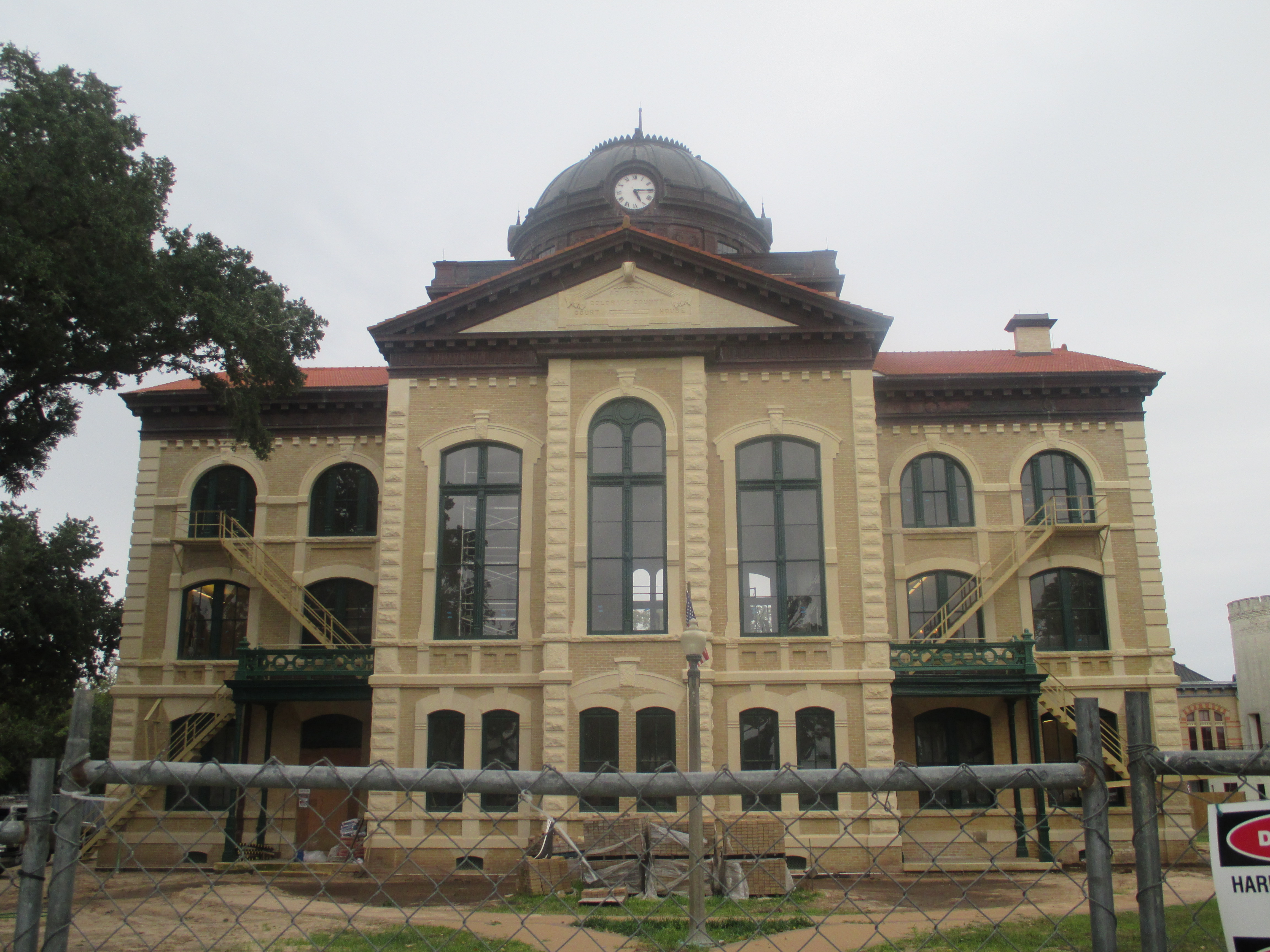 I took photo of renovations underway of Colorado County Courthouse in Columbus, TX; an earlier photo mistakenly says Austin County, instead of Colorado County.